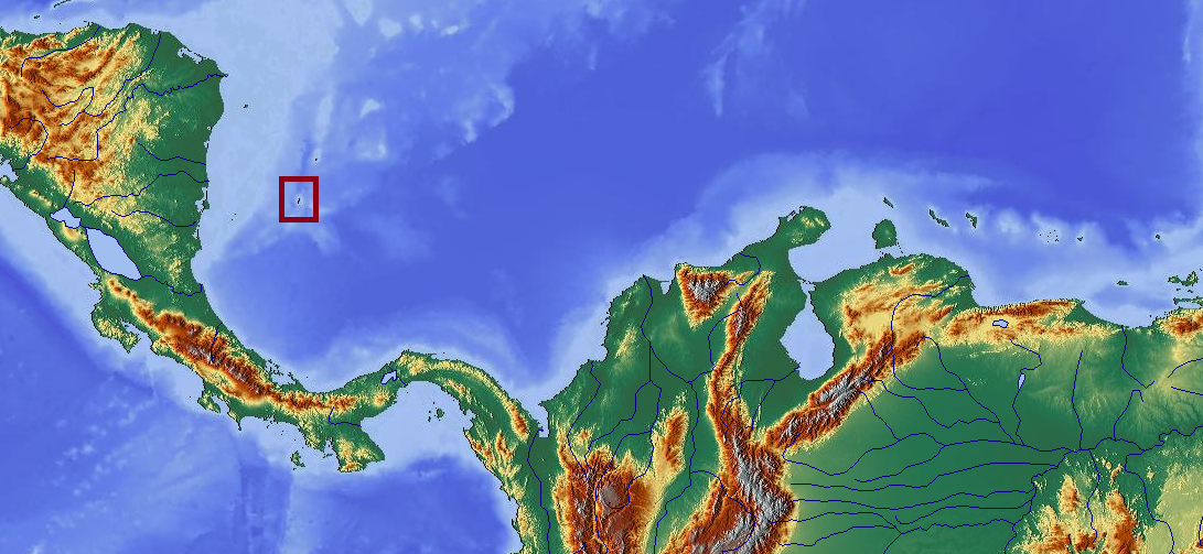 Relief map showing location of San Andres Island